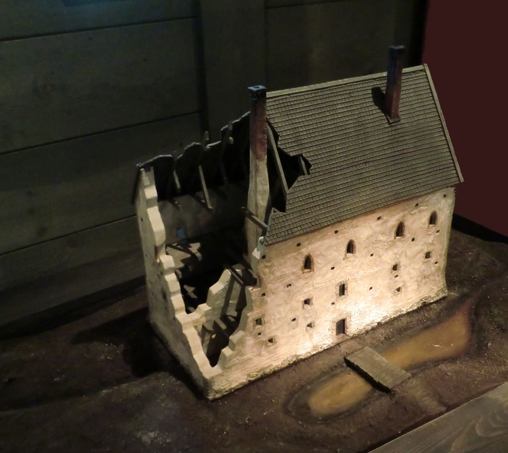 Model of the medieval stronghold Lenaborg in Kungslena Parish, Västergötland, Sweden. The model is made by Carl Johan Gunnarsson and is exhibited at Falbygdens museum in Falköping.